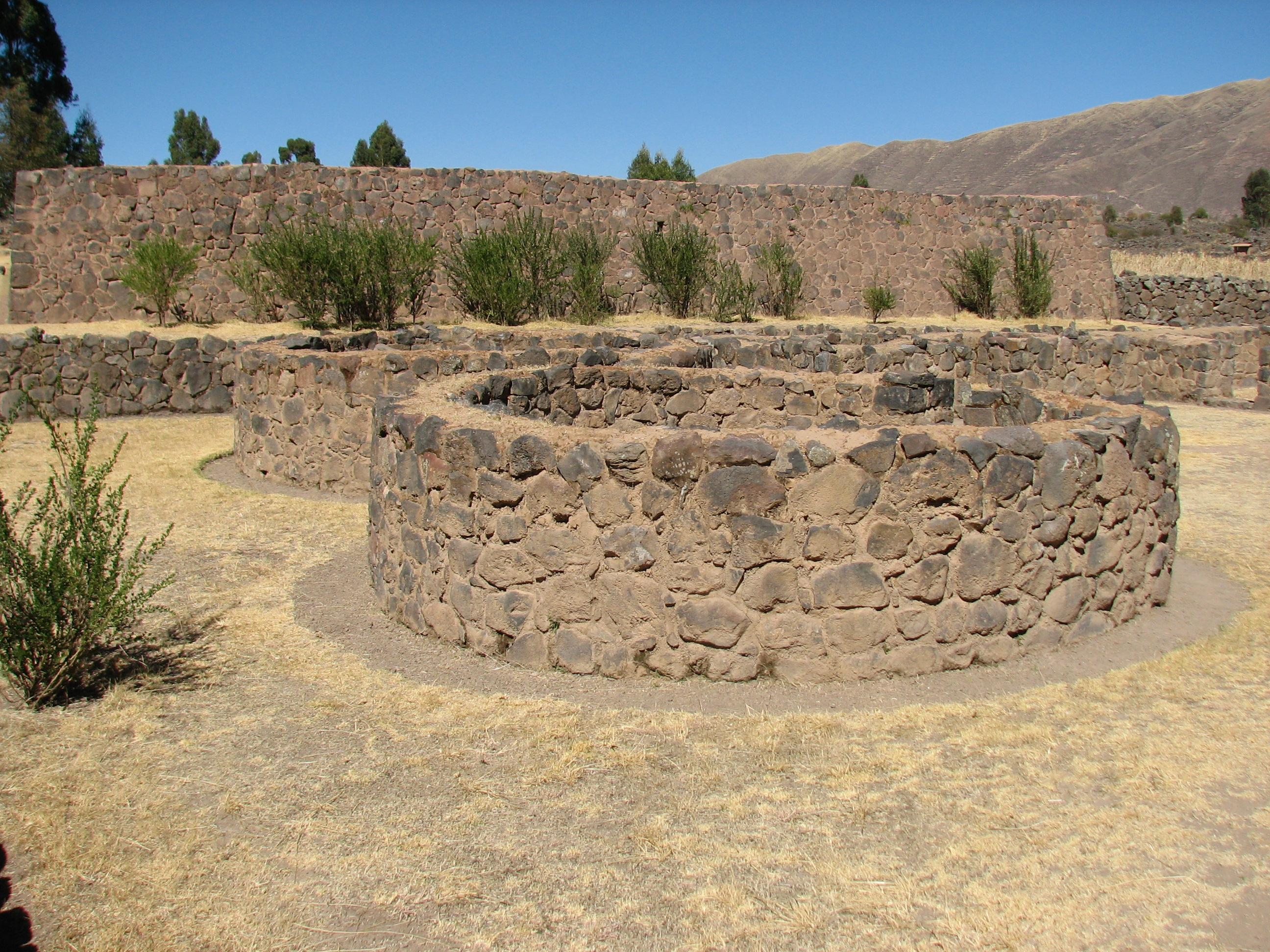 Raqchi archaeological site in Peru